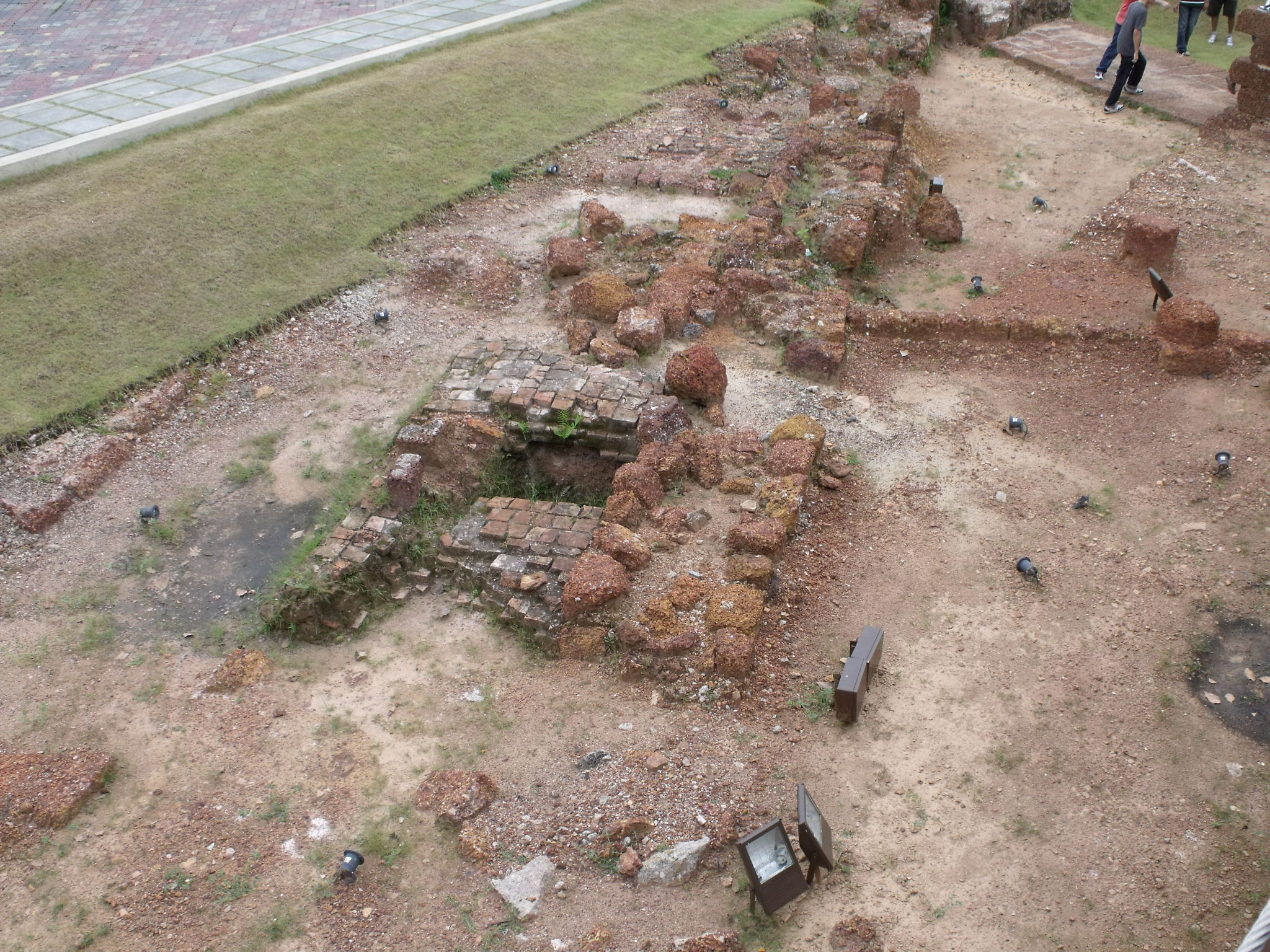 A_Famosa_anitary_sewer_line_remain